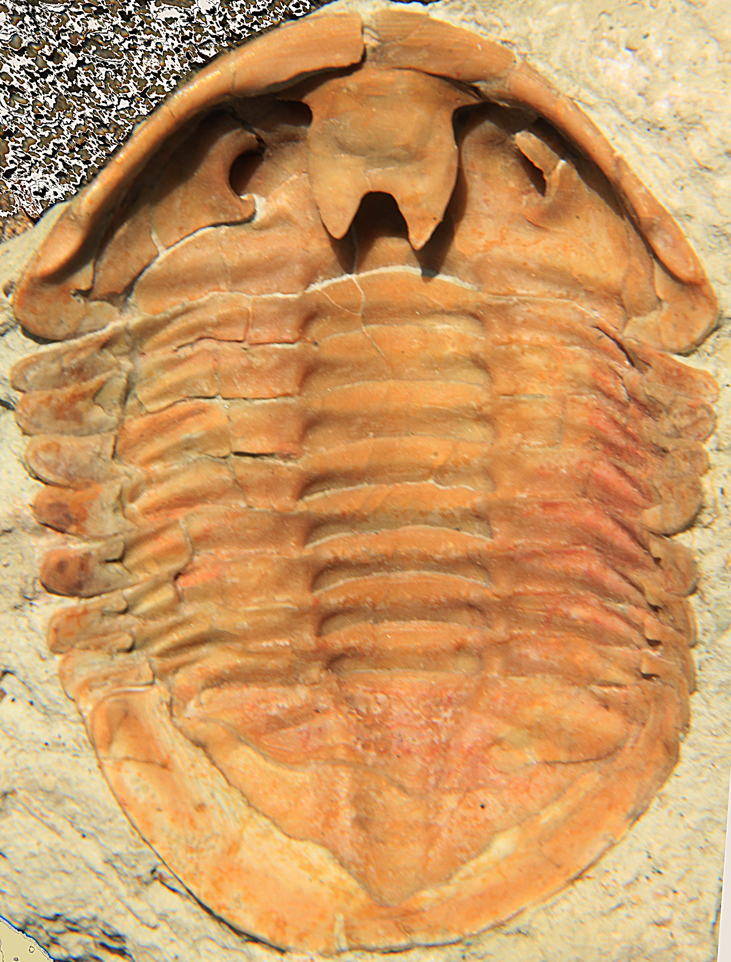 An Asaphus expansus trilobite, Order Asaphida, Family Asaphidae, 65 mm, collected from the Volkhov River area, near St. Petersburg, Russian Federation, from the Lover Ordovician, verntral side prepared, showing the attachment of the hypostome